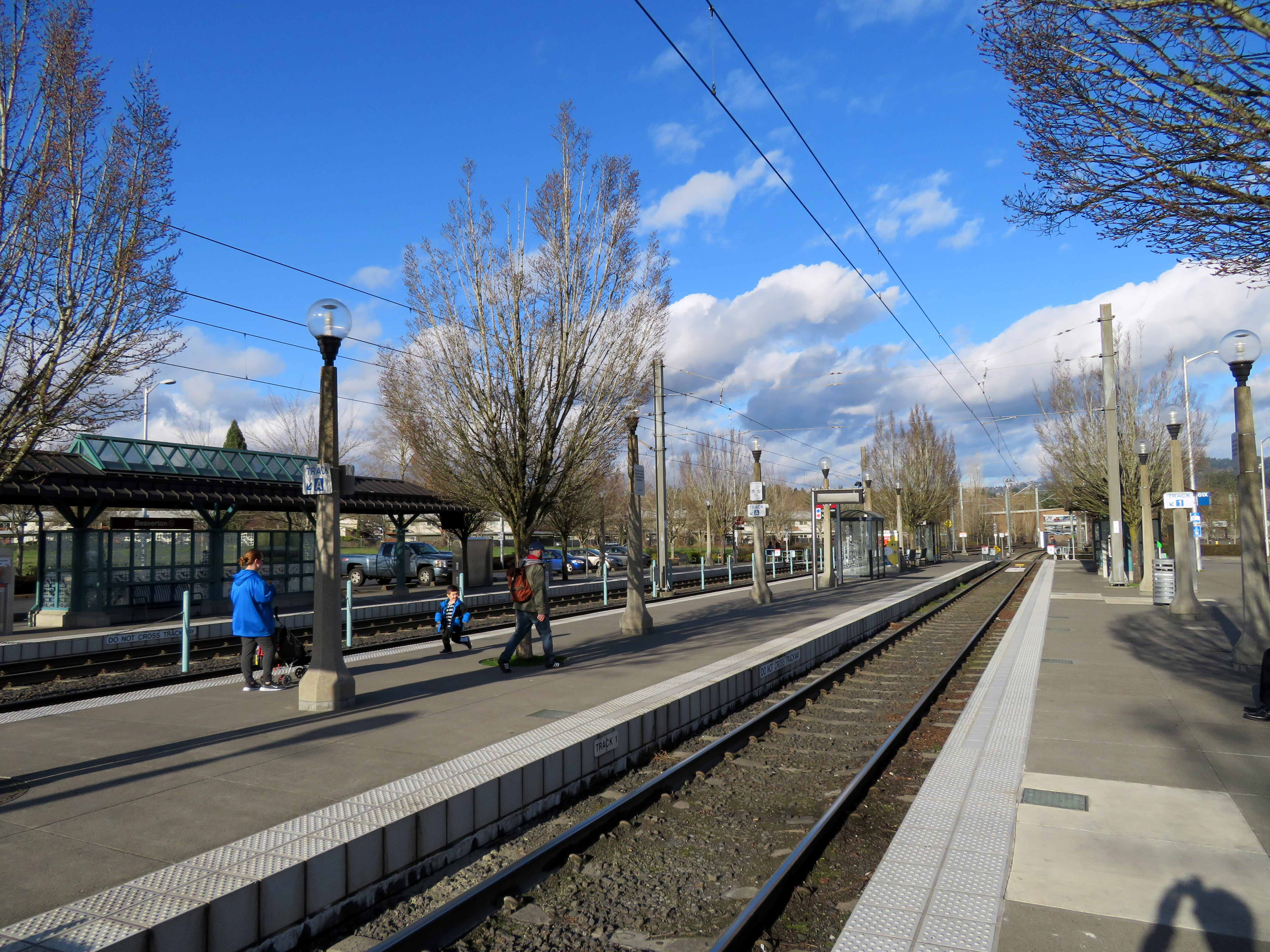 MAX platforms at Beaverton Transit Center in February 2018